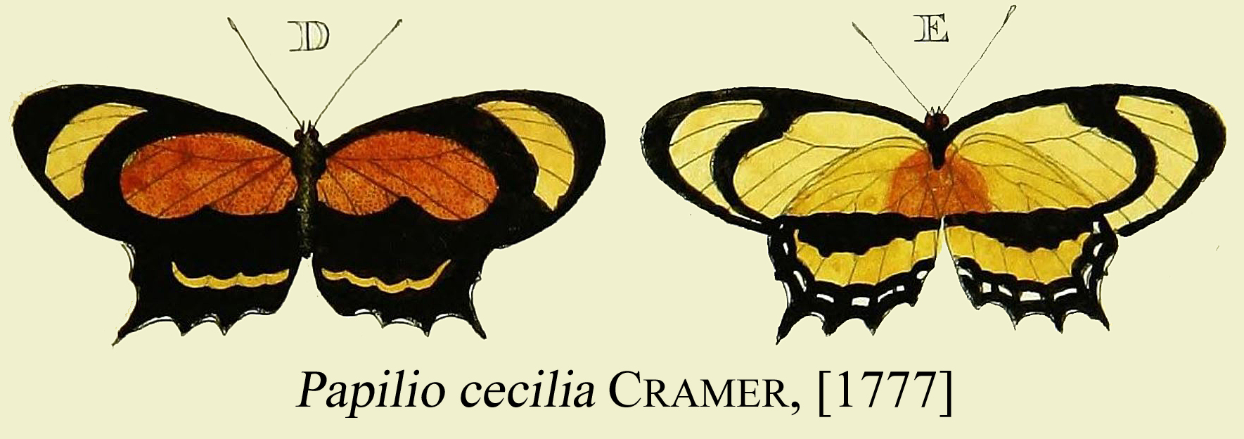 Papilio cecilia from original description.